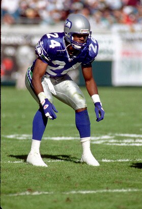 Selwyn Jones as a Seahawks as provided by subject